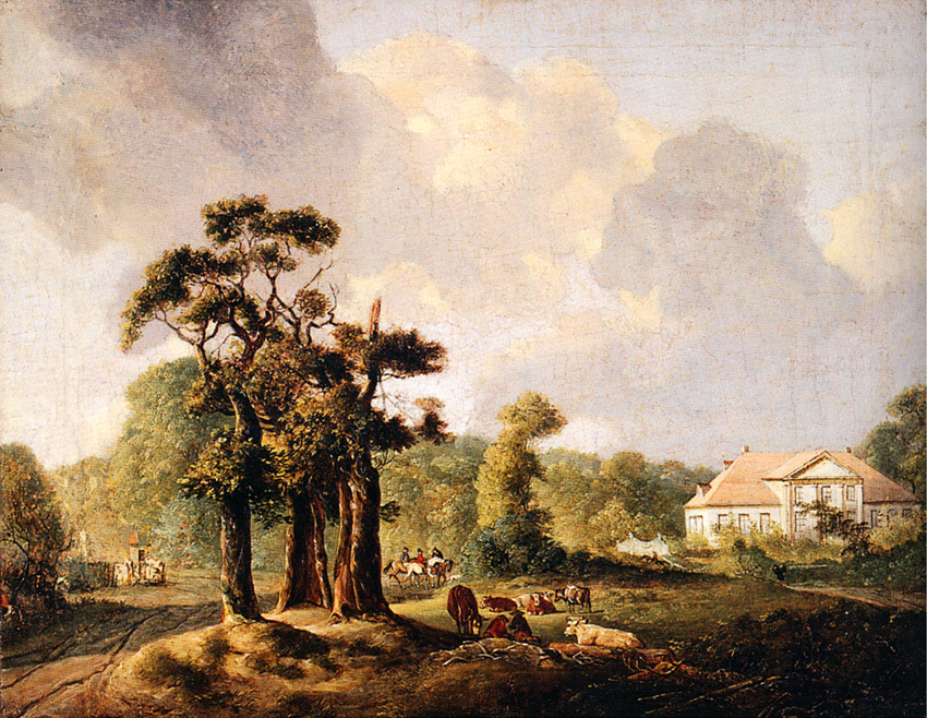 Painting by Johann Heinrich Menken (1766–1838), 1798/1803, of manor Gut Landruhe in Horn-Lehe, Bremen (Germany). The group of trees in the foreground marks the former meetingplace of the tribunal of the district Hollerland, called Uppe Angst.